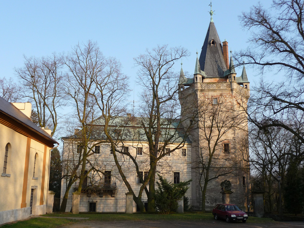 Stranov Castle, Jizerni Vtelno, Czech Republic